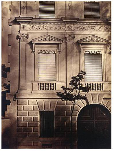 Attributed to Edouard Baldus, FAÇADE D'UN HÔTEL PARTICULIER PARISIEN, VERS 1855